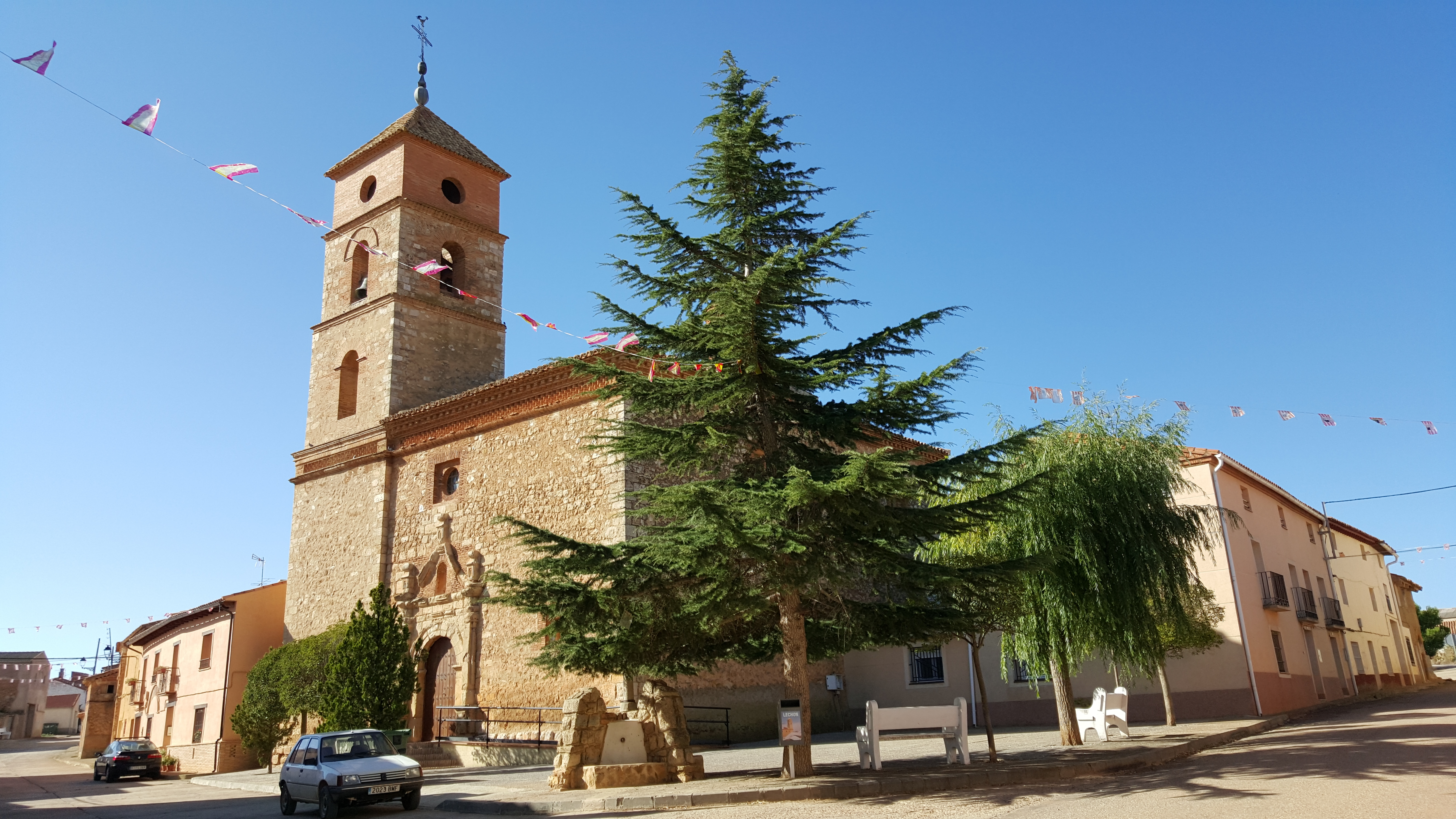 Church of St Lorenzo, Lechón, Zaragoza, Spain